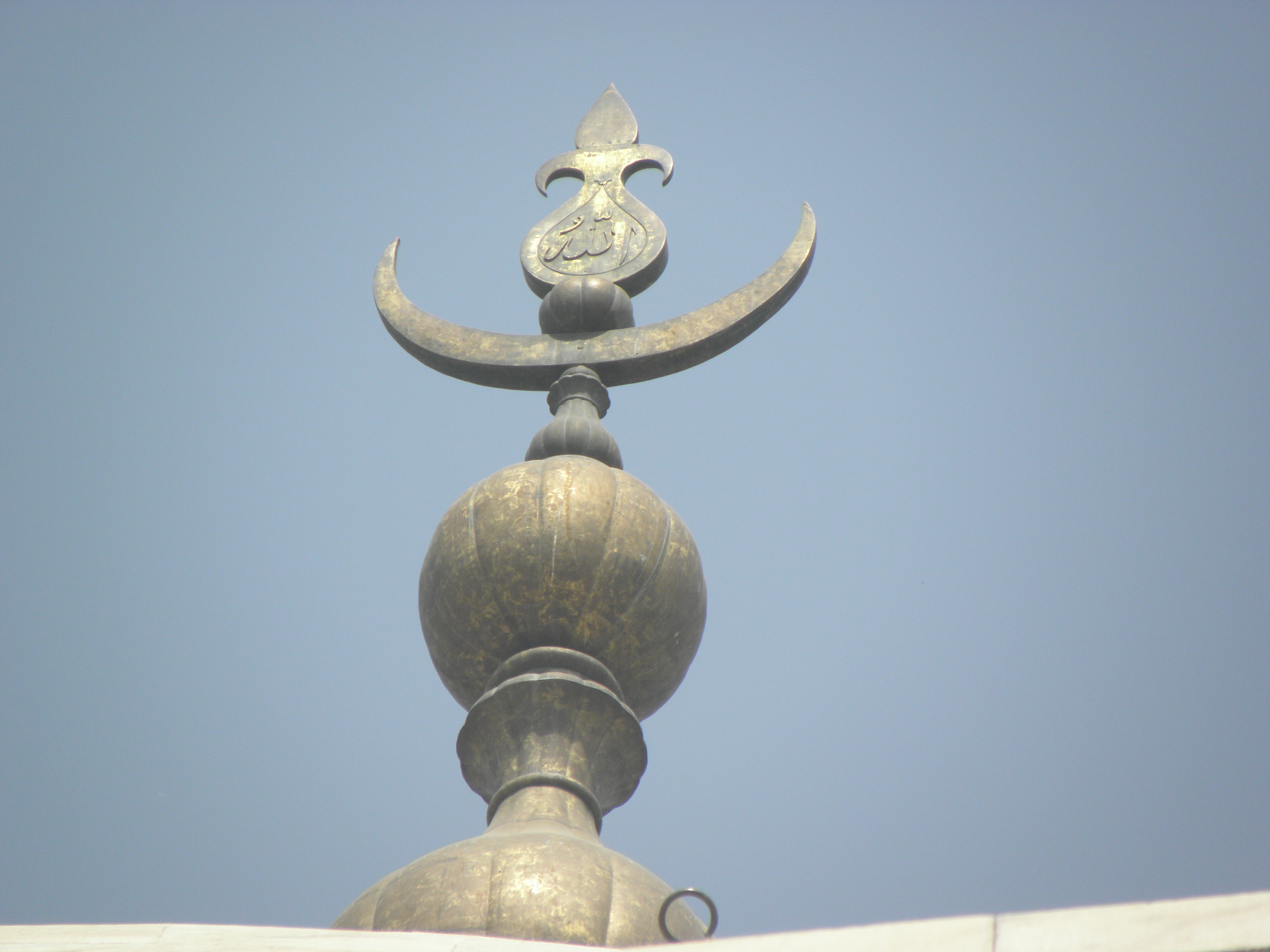 Top of the finial of the Taj Mahal, Agra, U.P., India